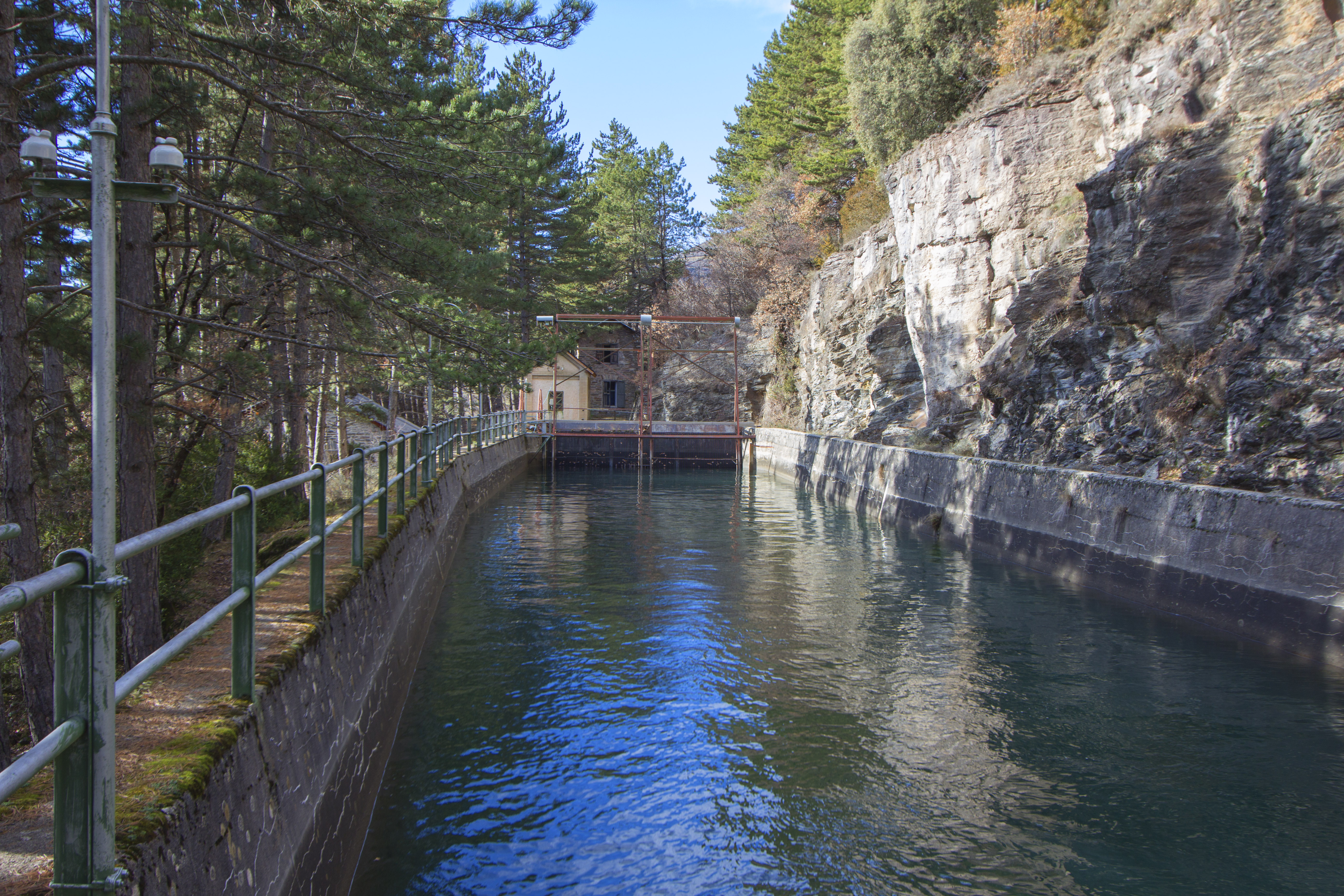 Molinos hydropower plant. Forebay tank before penstocks. Torre de Capdella (Catalan Pyrenees)